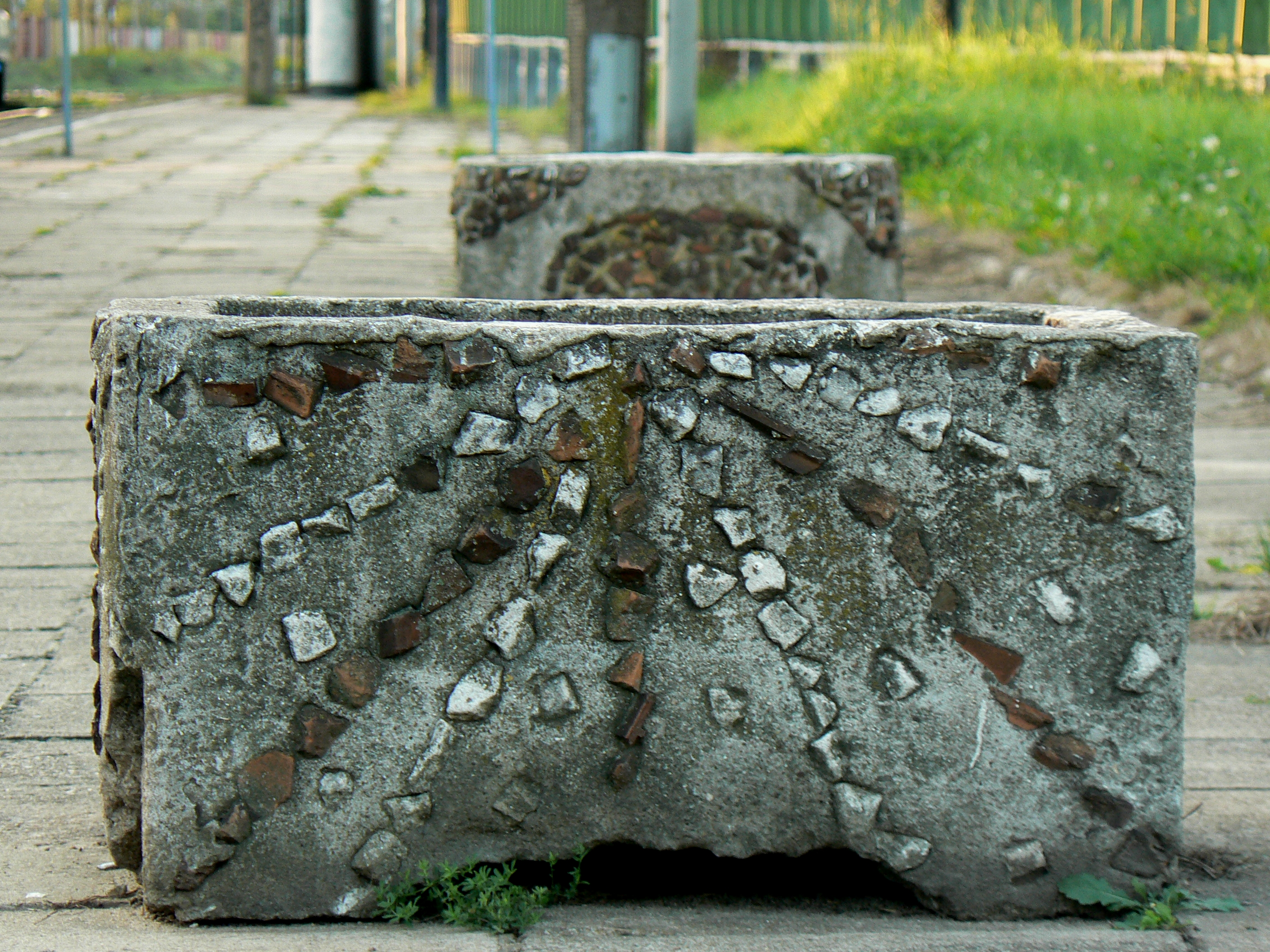 Concrete flowerbed at the Łódź-Żabieniec train station, Łódź, Poland.